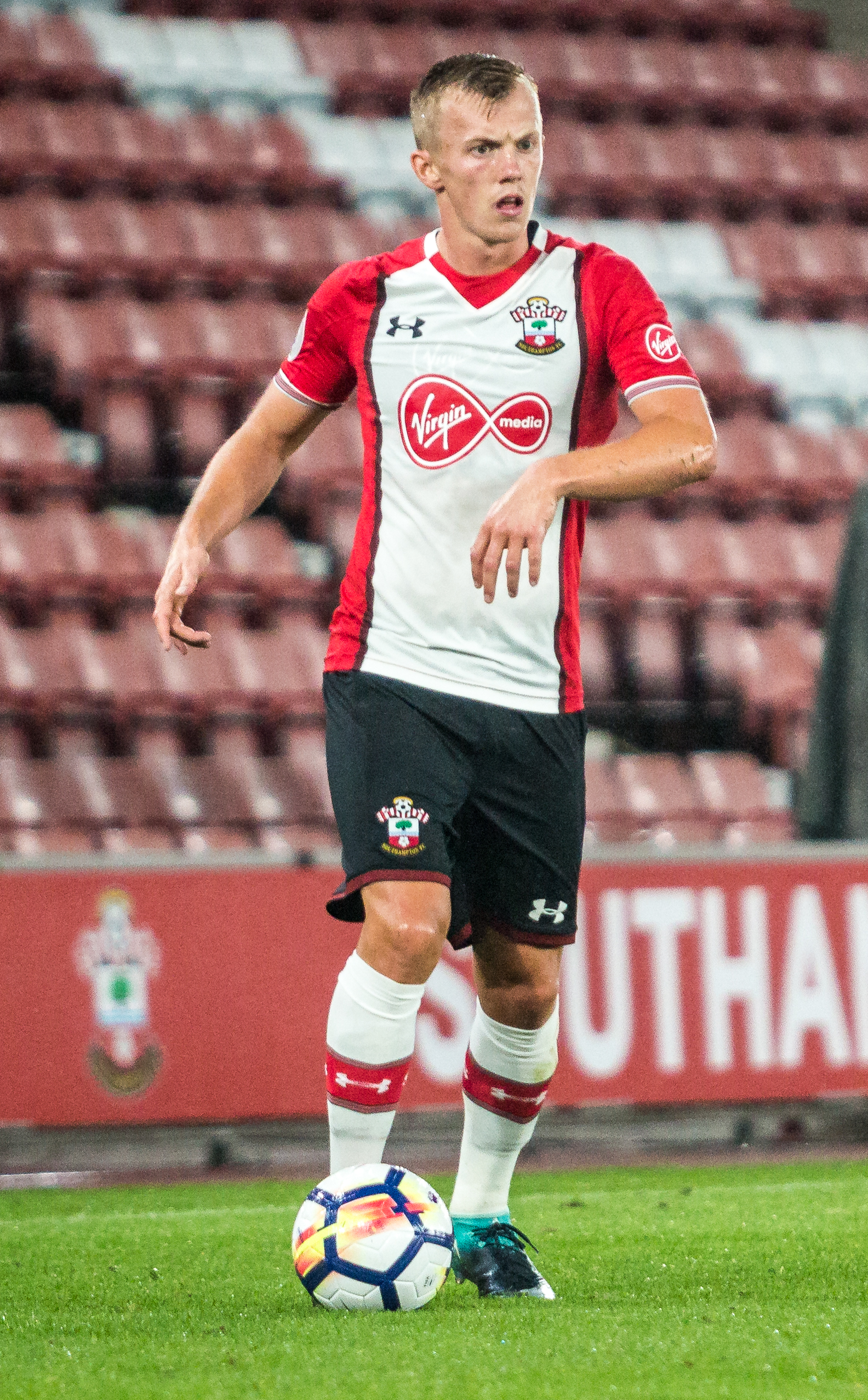 Pre-season friendly Wednesday 2 August 2017 Image by Lewis Commons